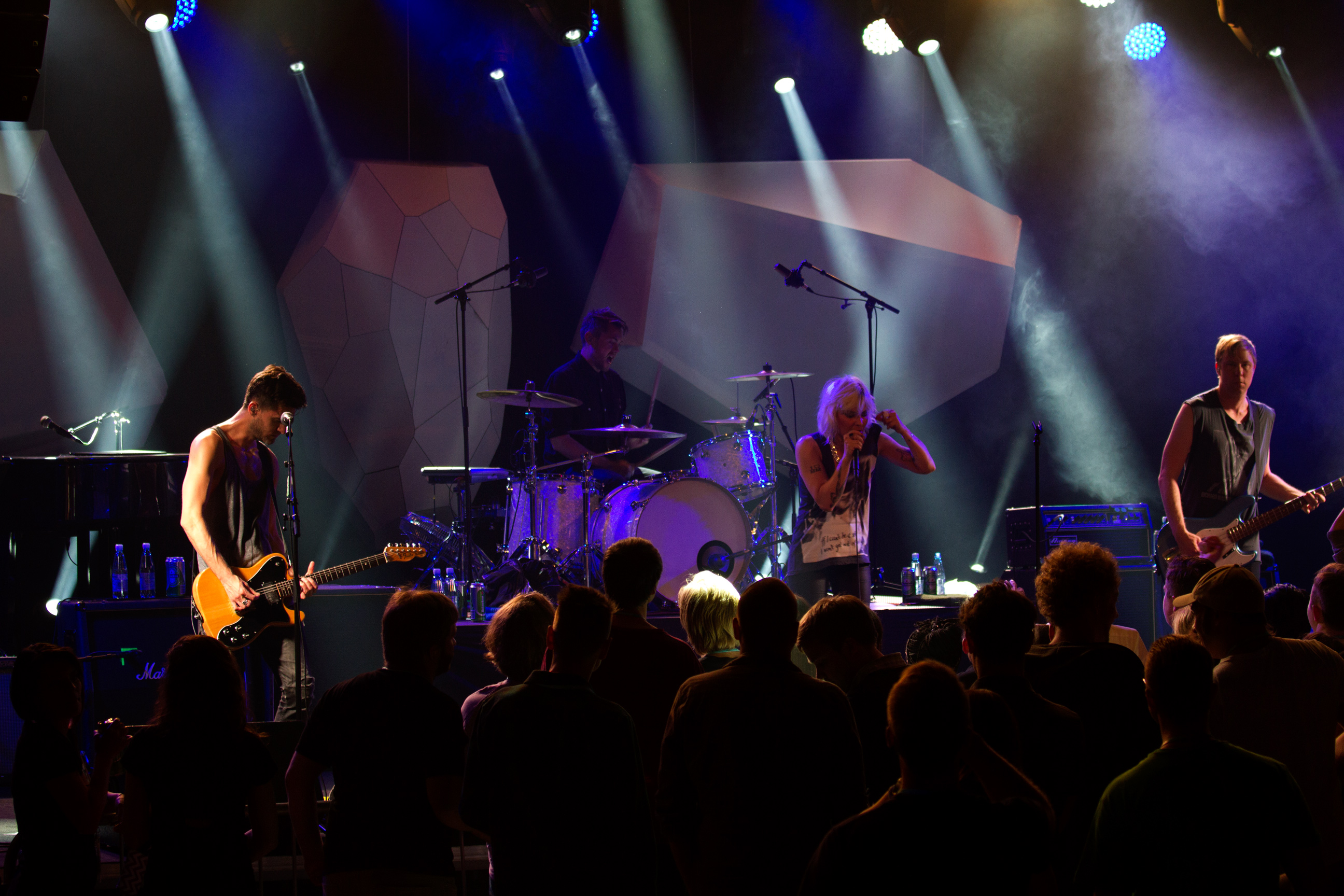 Live at FreeYourPlay in Helsinki, June 2013